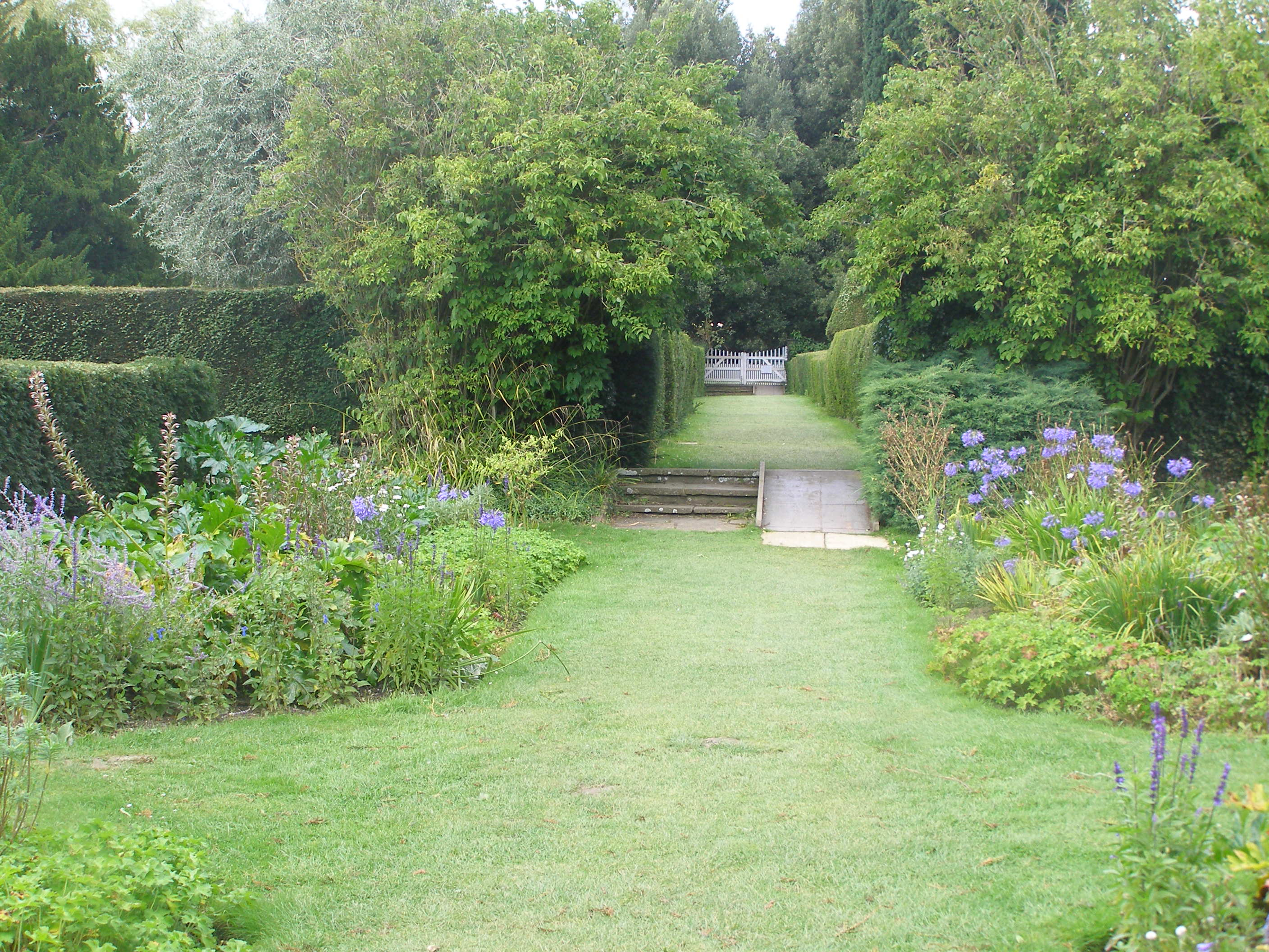 Formal Gardens at the Bentley Wildfowl and Motor Museum, Halland, East Sussex, England